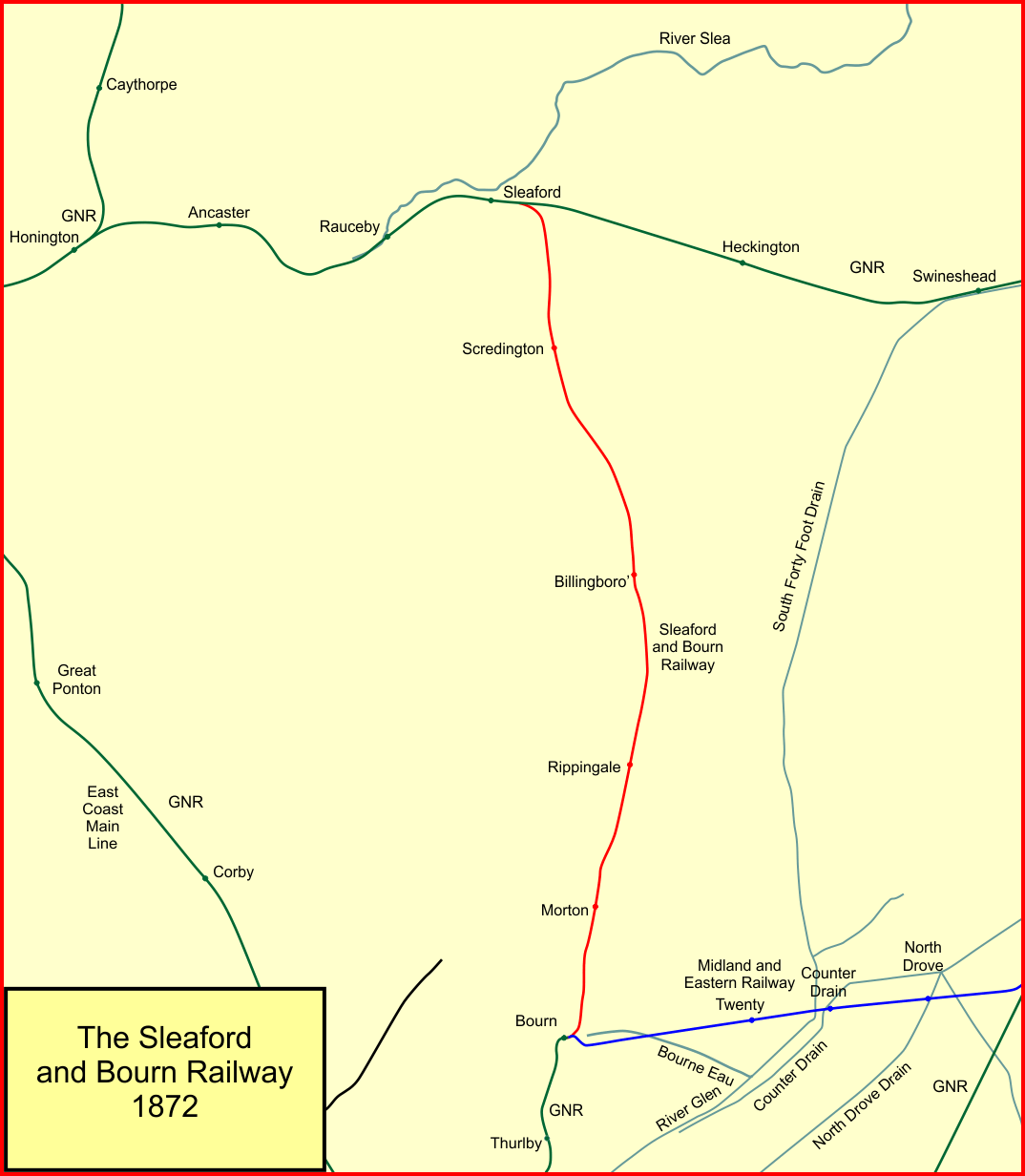 System map of the Sleaford and Bourn Railway of the Great Northern Railway Company, in Lincolnshire, in 1872